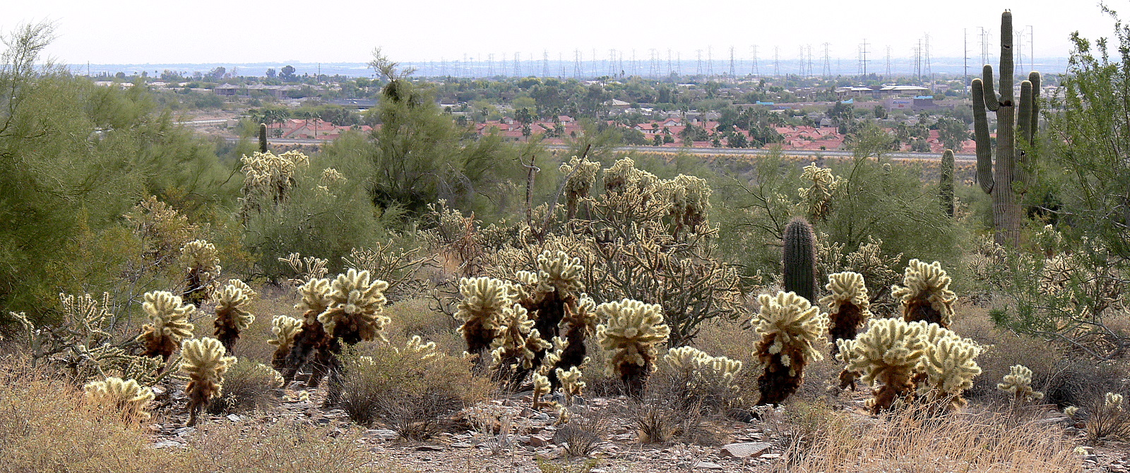 The image was personally taken by me in December 2006. Wars 04:35, 18 December 2006 (UTC)